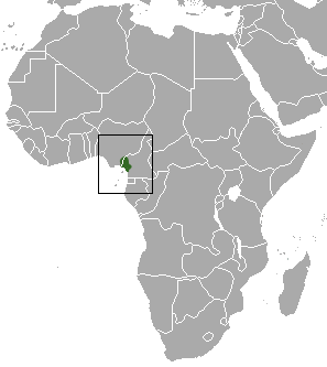 Red-eared Guenon (Cercopithecus erythrotis) range